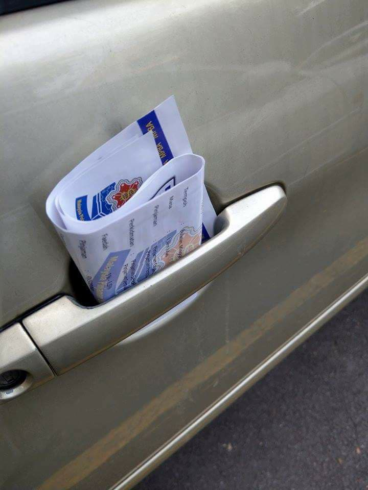 Ah long putting their advertising pamphlet in a car door handle.